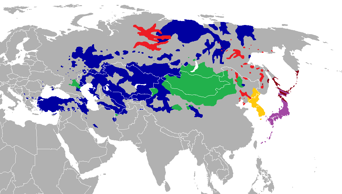 The branches of the Altaic language familyː Turkic languages Mongolic languages Tungusic languages Japonic languages ? Koreanic languages ? Ainu languages ?